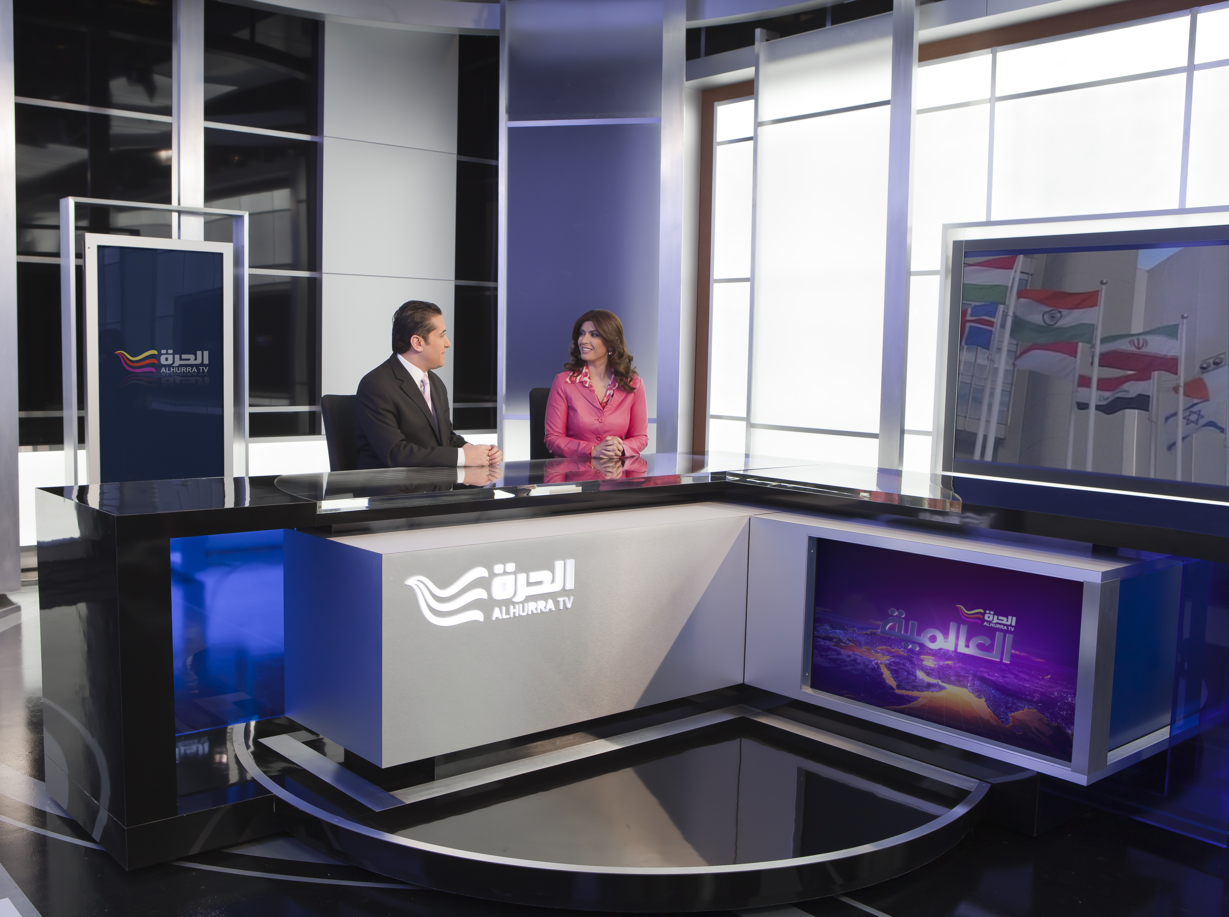 Alhurra anchors on air from Alhurra's broadcast studio in Springfield, VA - February 23, 2011